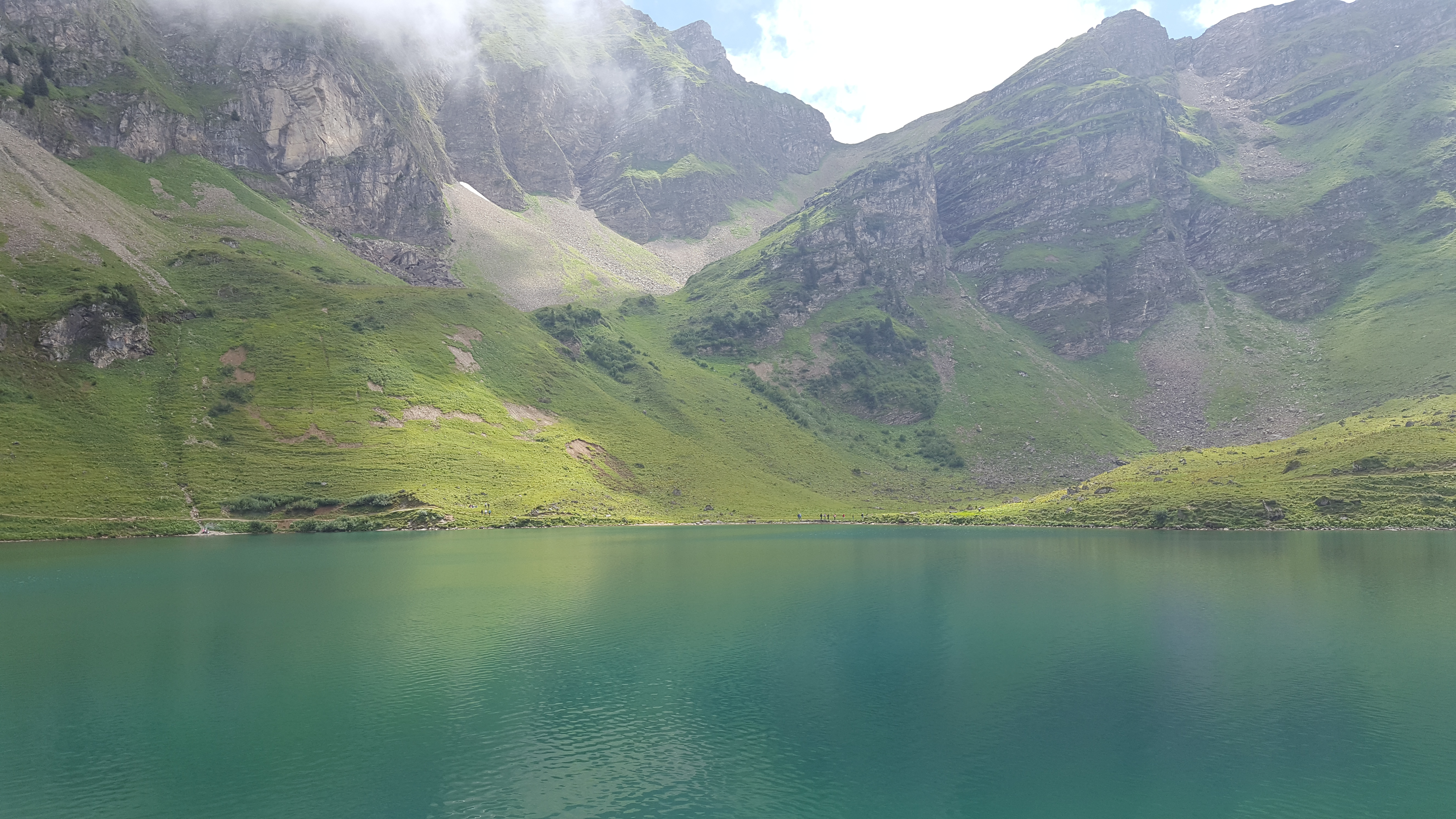 Lac Lioson (Ormont-Dessous, VD, Switzerland)